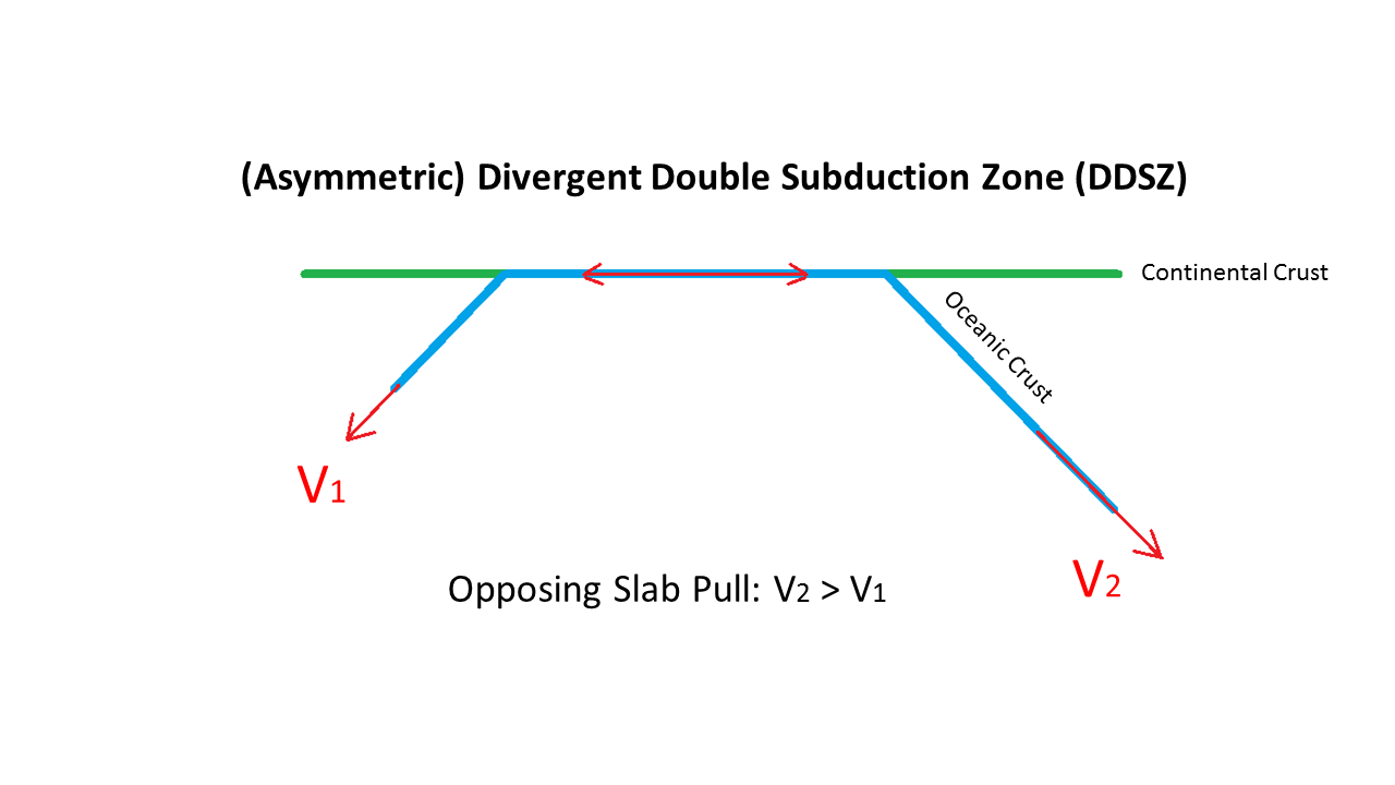 Inspired by Zhao, Z., P.D. Bons, Eberhard Karls University Tübingen, Germany E. Gomez-Rivas